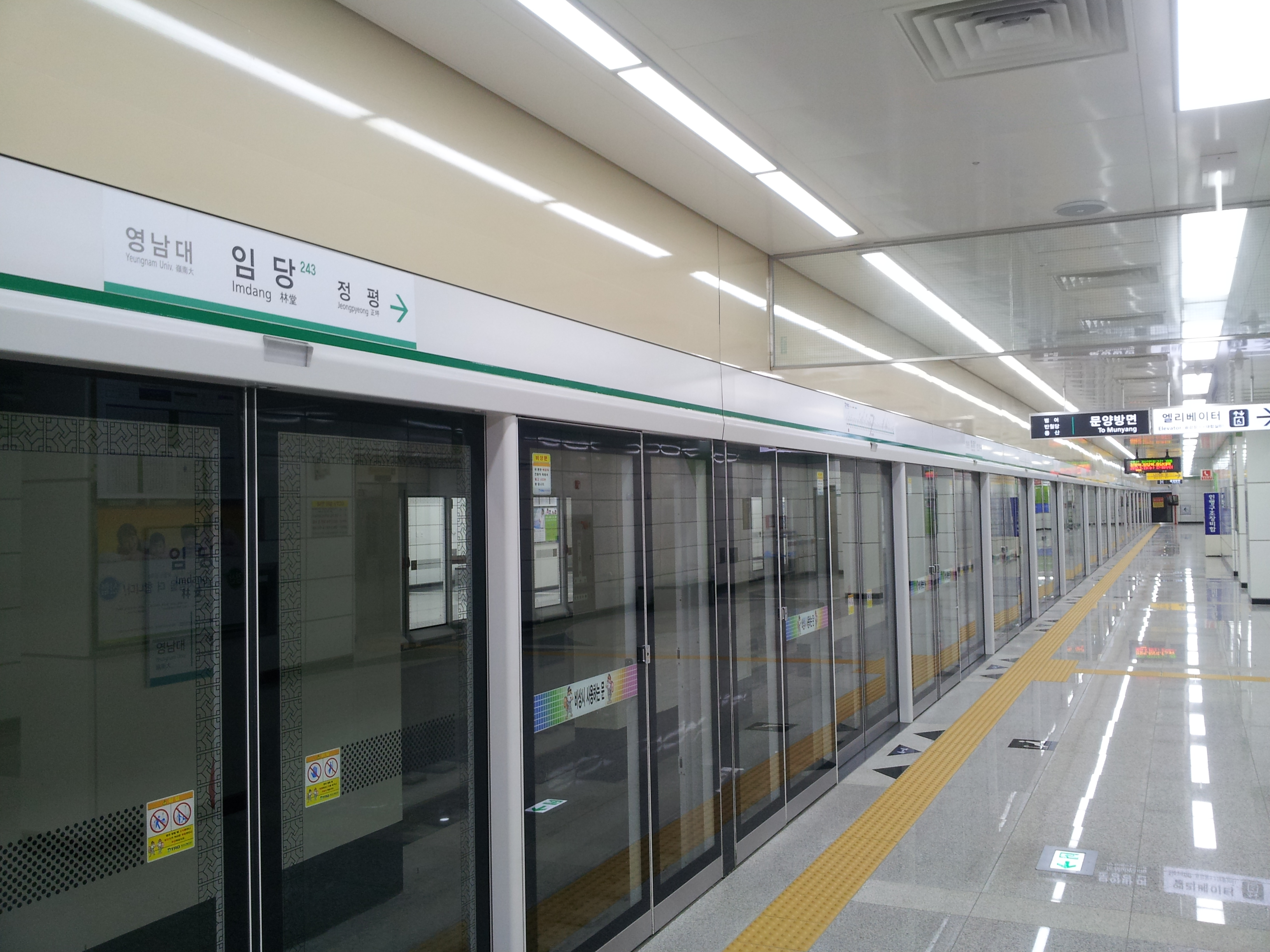 Imdang Stn.